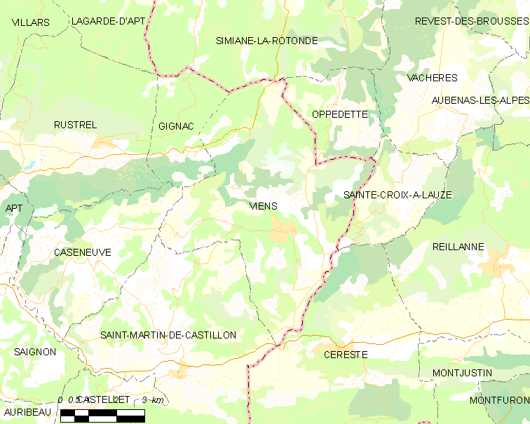 Map of French municipality Viens